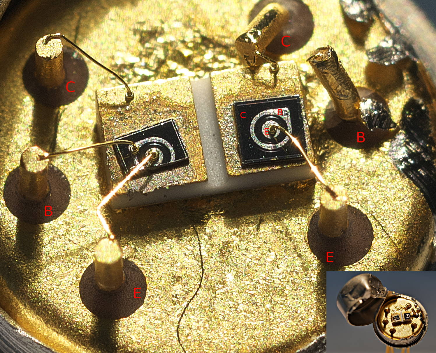 Dual Silicon Transistor, technology of the 1970s